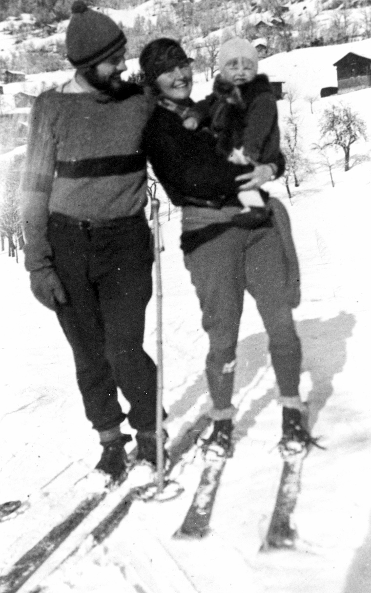 Ernest, Hadley, and Jack ("Bumby") Hemingway. Schruns, Austria.